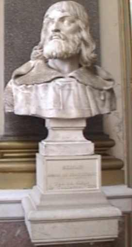 Simon IV of Montfort, battles gallery, Versailles castle, France